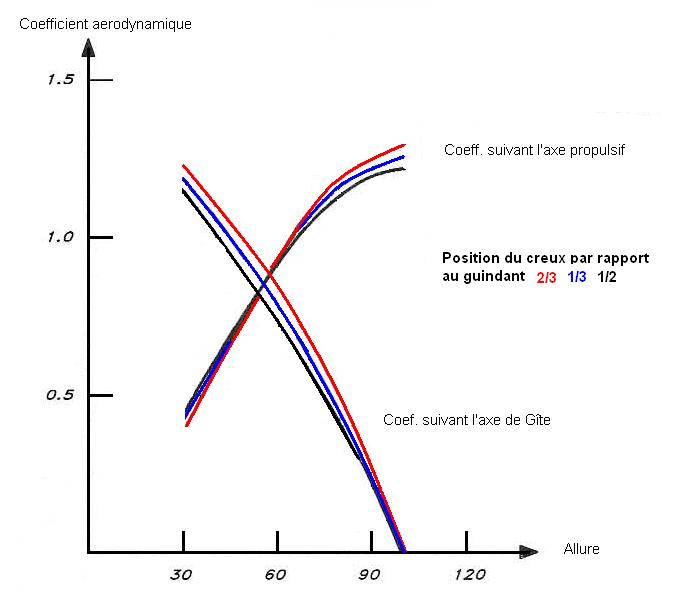 Influence of maximum camber position on sail